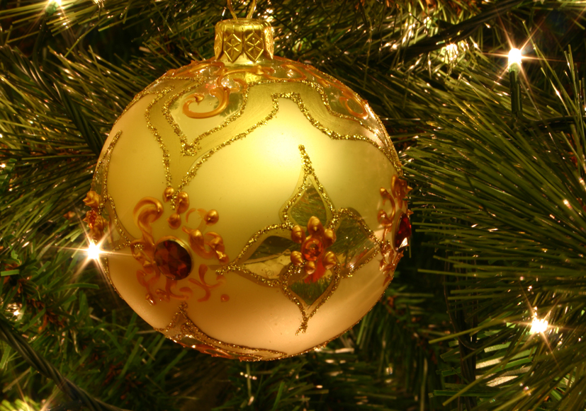 A bauble on a Christmas tree.